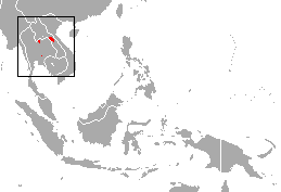 Hill's Shrew (Crocidura hilliana) range